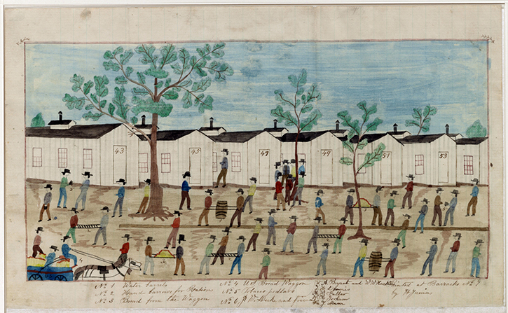 The Federal prison at Rock Island, Illinois, a small strip of land in the Mississippi River, held between 5,000 and 8,000 Confederate prisoners. This sketch of the prison was found in a letter written by Confederate soldier James W. Duke to his cousin in Georgetown, Kentucky. The drawing, by a soldier identified only as H. Junius, is apparently the item described in Duke’s letter as "the picture of our row of Barracks." This idyllic scene of men strolling peacefully on the grounds or performing routine chores among the neatly maintained barracks probably reveals more about the restrictions placed on outgoing mail than on actual conditions within the prison.